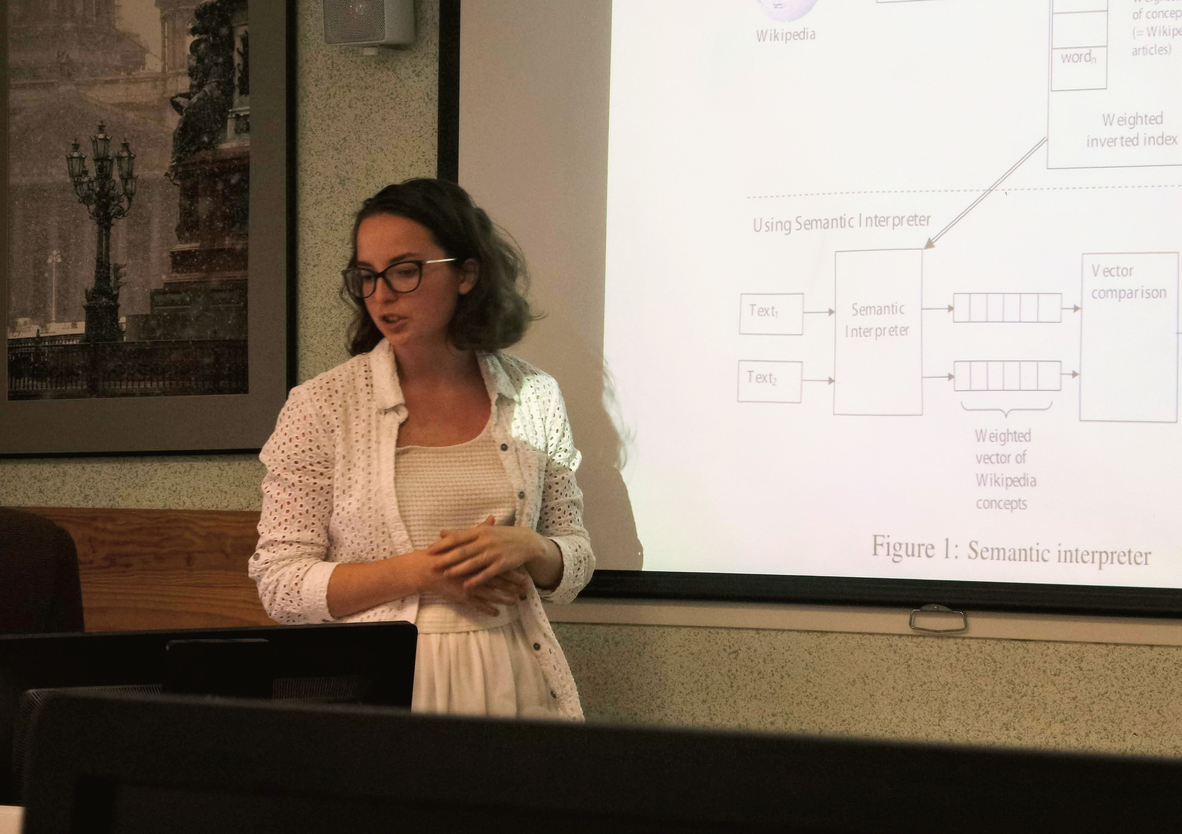 Anna Krukova, Corpus linguistics ‒ 2019, Saint Petersburg.